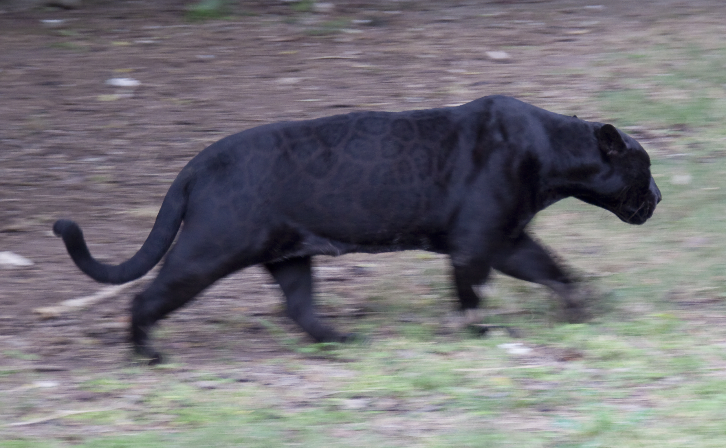 Not a great photo but the light was getting bad and this black jaguar was a long way off.